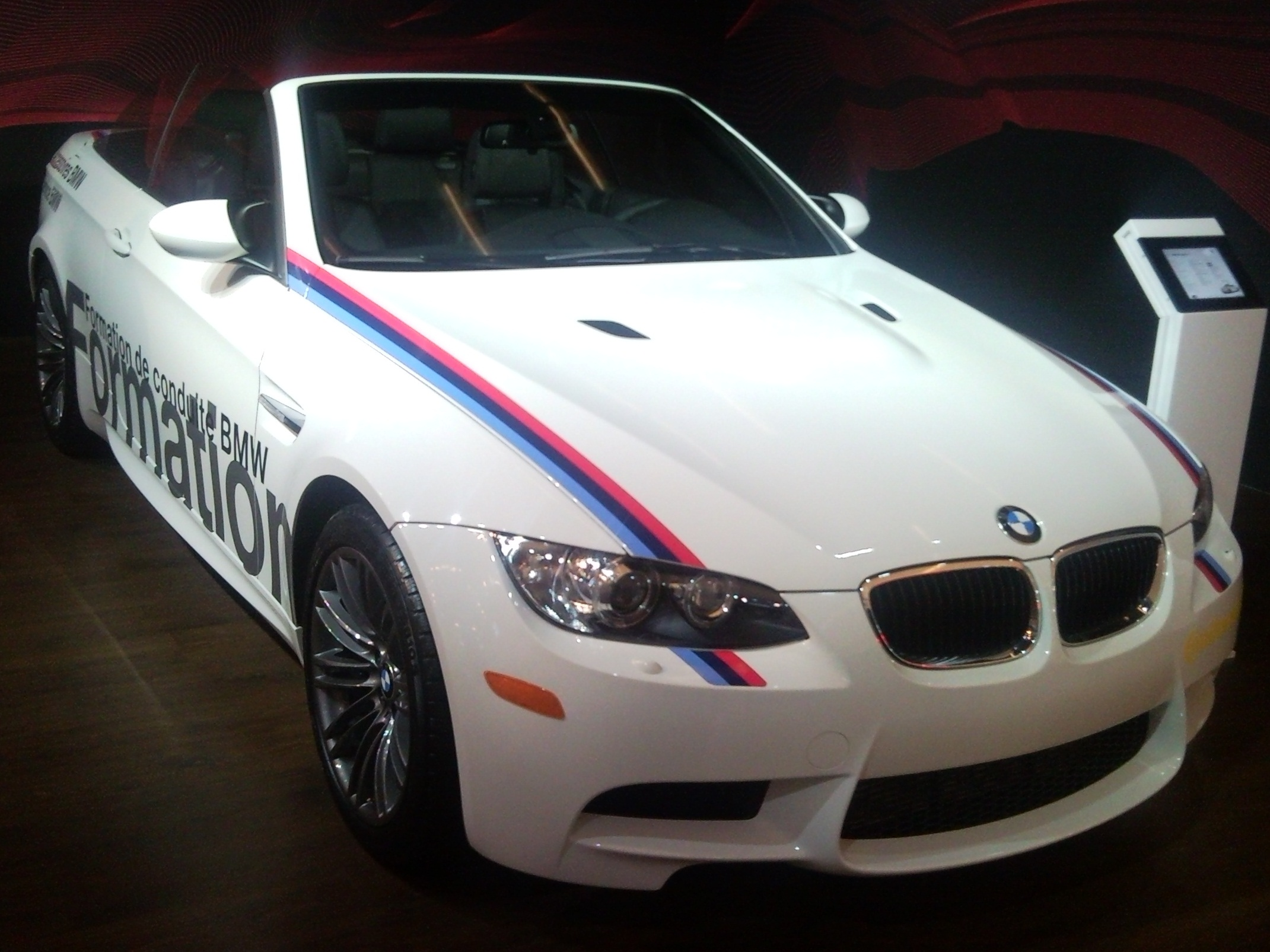 2012 BMW M3 photographed in Montreal, Quebec, Canada at the 2012 Montreal International Auto Show.